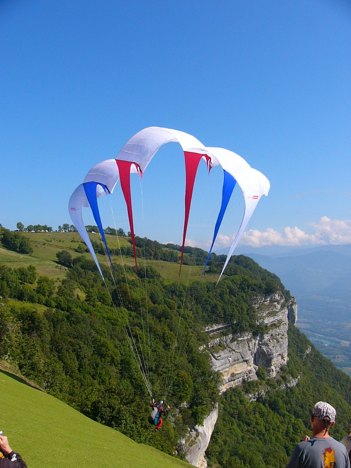 Dave Barish's Sailwing replica by Francis Heilmann, launched by Francis Heilmann in Saint-Hilaire du Touvet (France) on September the 22nd 2005.